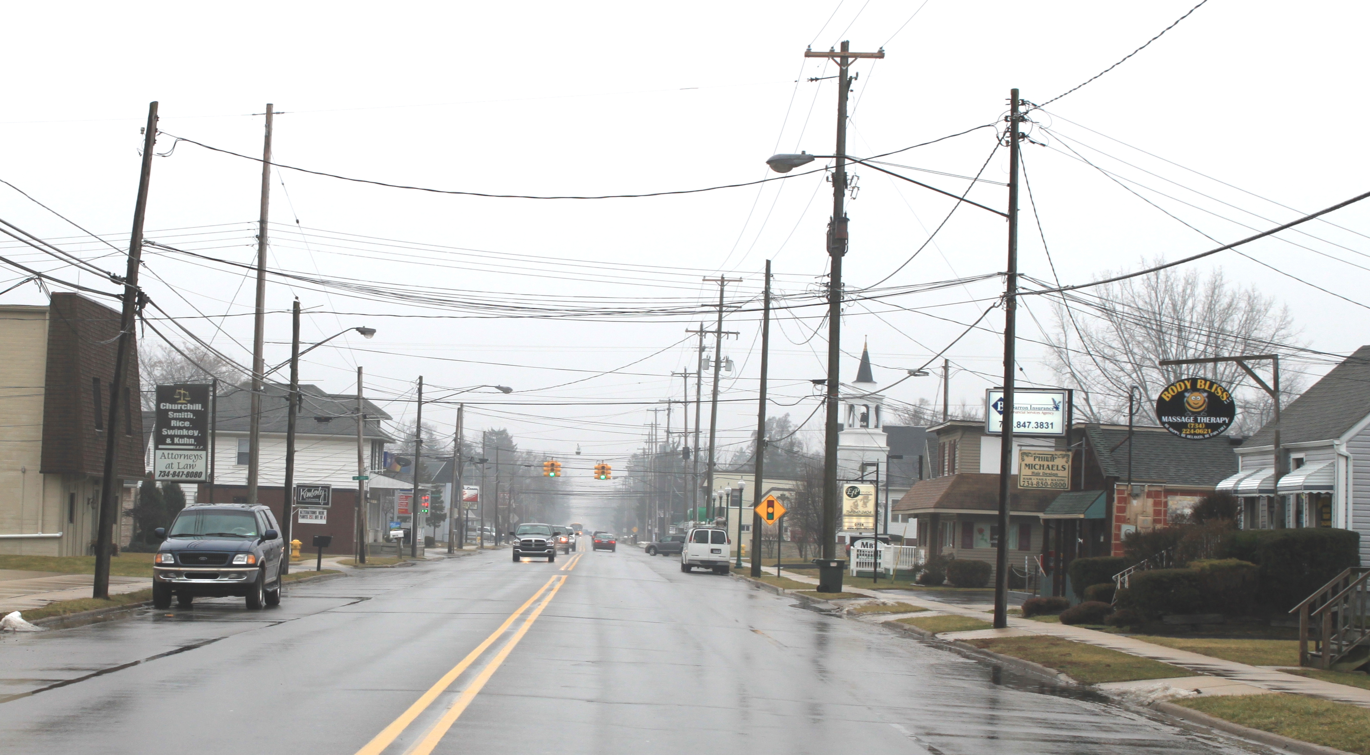 Lewis Avenue facing south, north of Temperance Road, Temperance, Michigan.